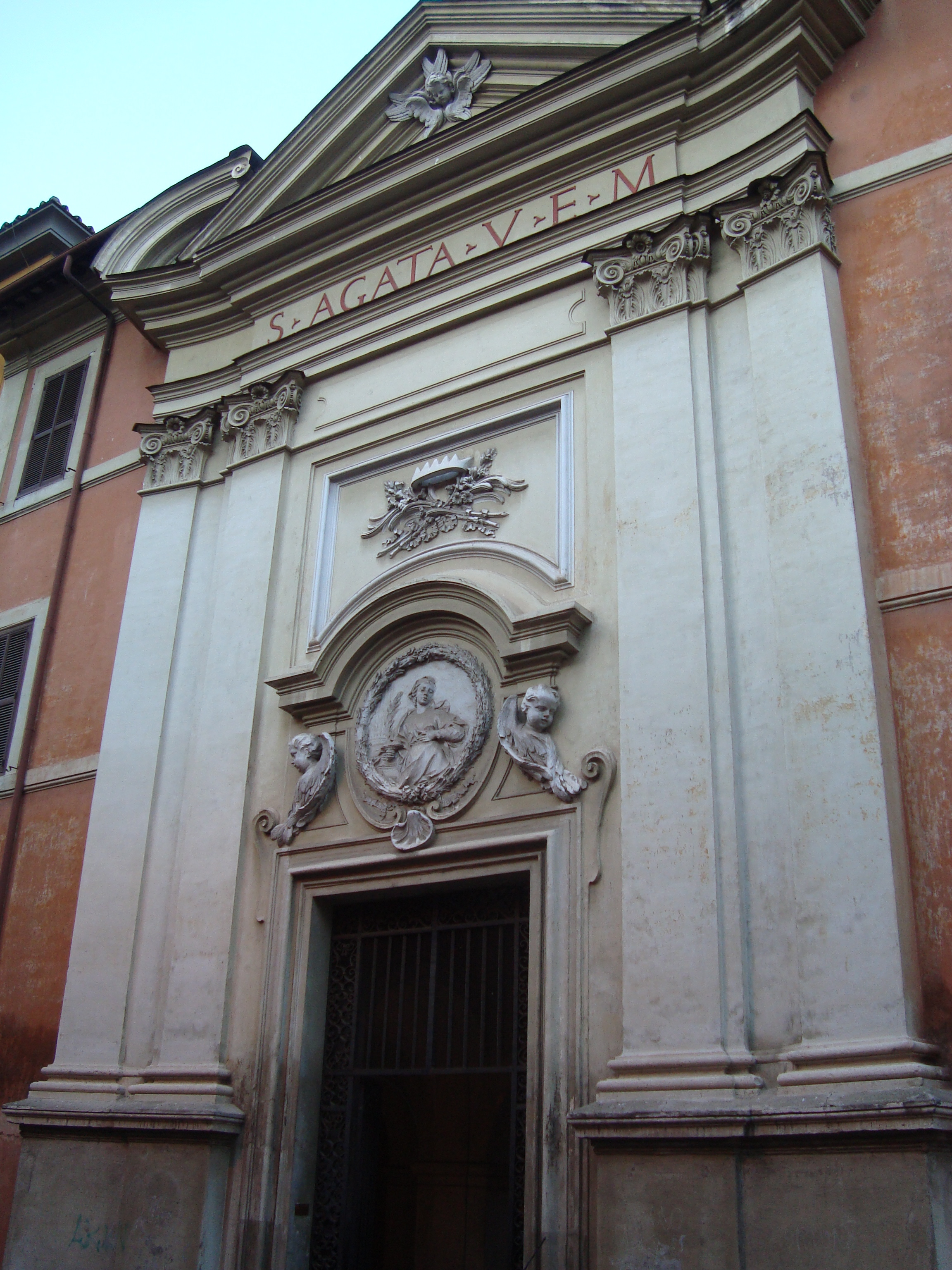 Facade of the church Sant'Agata dei Goti in Rome